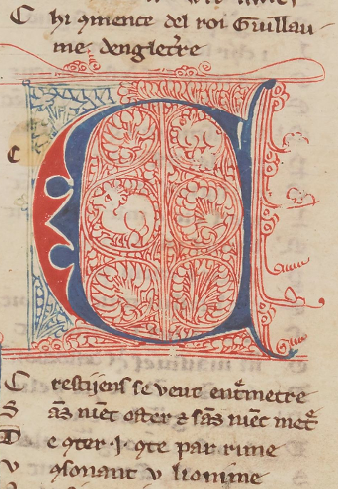 Incipit and first four lines of Guillaume d’Angleterre. Ms. 375 français of the BnF, f. 240vb.